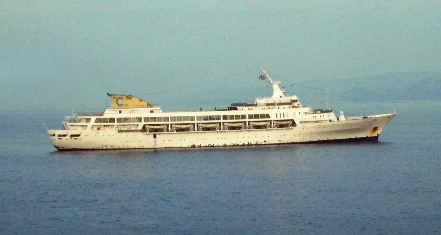 The cruise ship Italia arrives in Piraeus harbor on August 1, 1980.